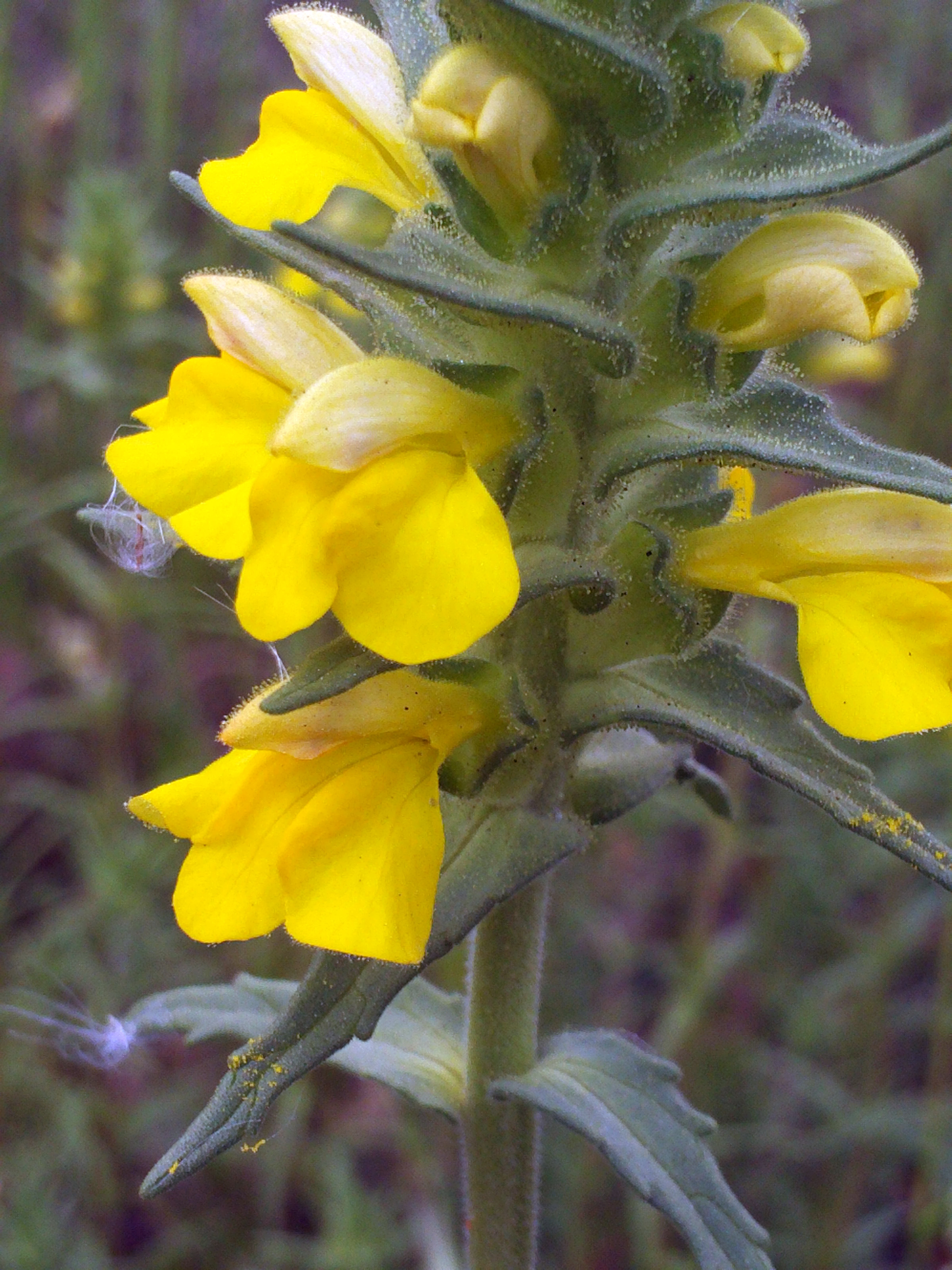 Parentucellia viscosa leaves, Sierra Madrona, Spain